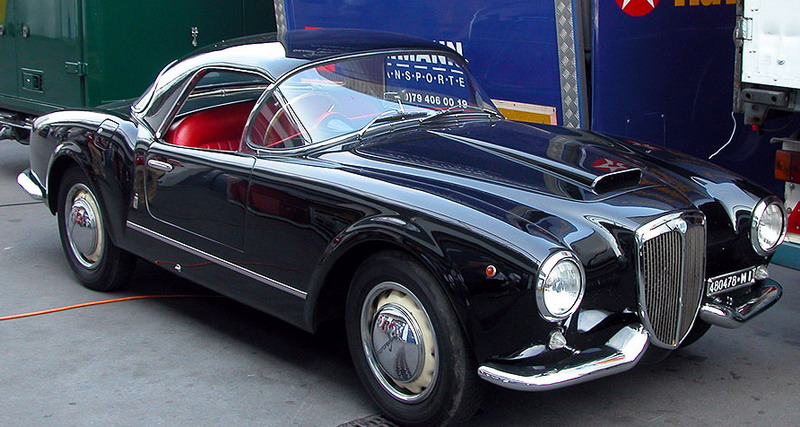 Lancia Aurelia B24 Spider with rare hardtop by Carrozzeria Paolo Fontana of Padua, Italy